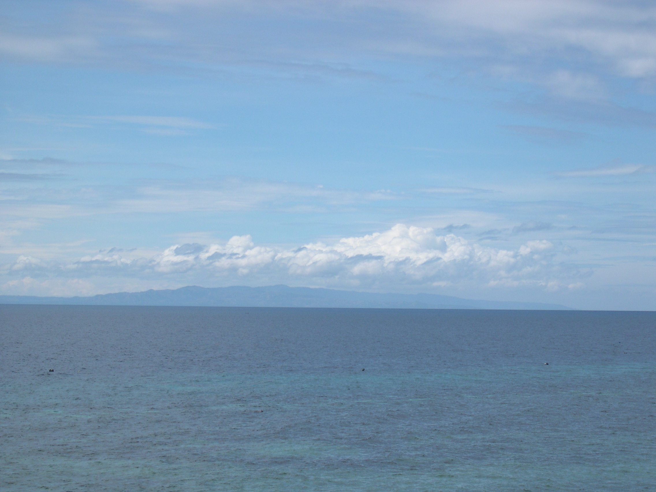 Siquijor Island seen from Alona beach on Panglao Island. Picture taken by Magalhães on March 25th 2006